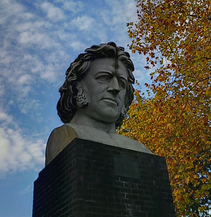 Bust of Joseph Paxton in Crystal Palace Park, London Borough of Bromley.